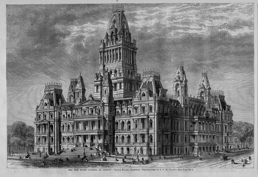 Architectural drawing of NYS Capitol Building in Albany, NY published in Harpers Weekly